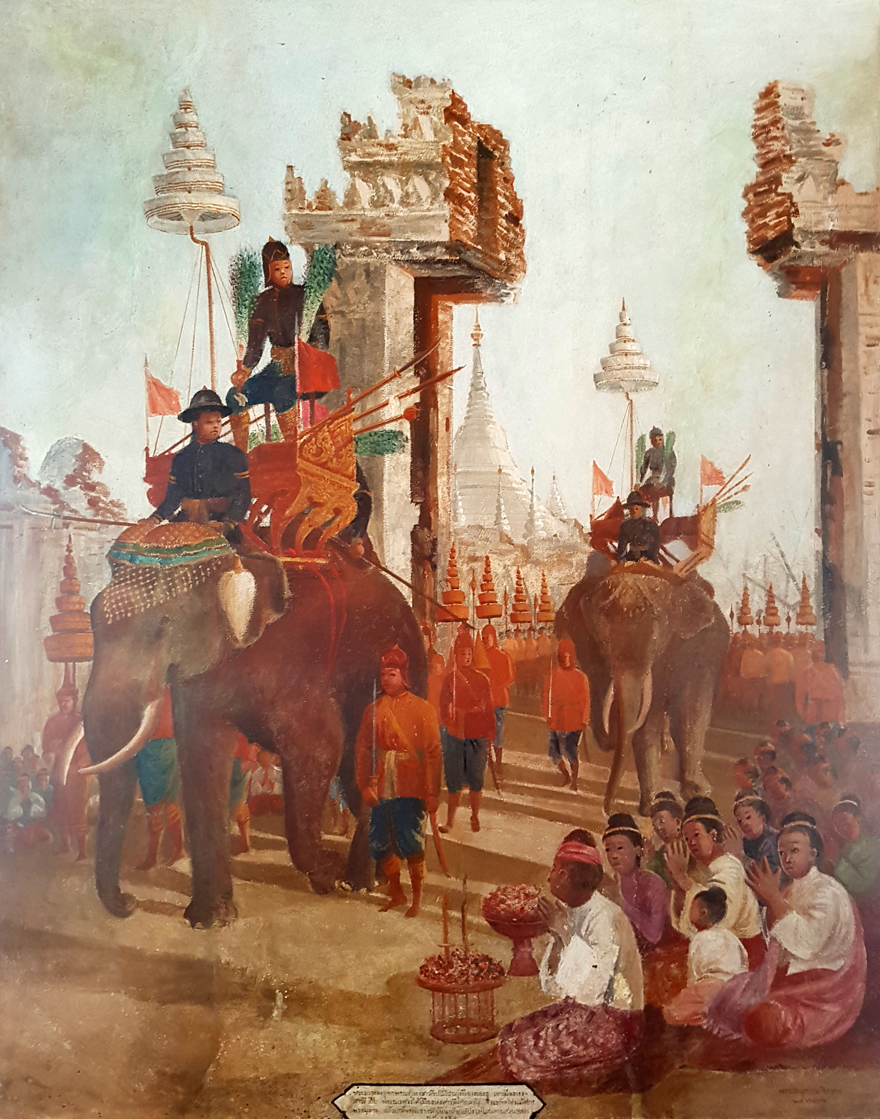 Painting: Naresuan the king of Ayutthaya entered the ruined city of Hanthawaddy in 2142 Buddhist Era (falling between 1599/1600 Common Era). Place: Mural painting inside the wihan of Wat Suwan Dararam, Phra Nakhon Si Ayutthaya Province, Thailand. Painter: Noble title: Phraya Anusat Chittrakon (พระยาอนุศาสนจิตรกร) Real name: Chan Chittrakon (จันทร จิตรกร) Year painted: 2474 Buddhist Era (falling between 1931/32 Common Era)